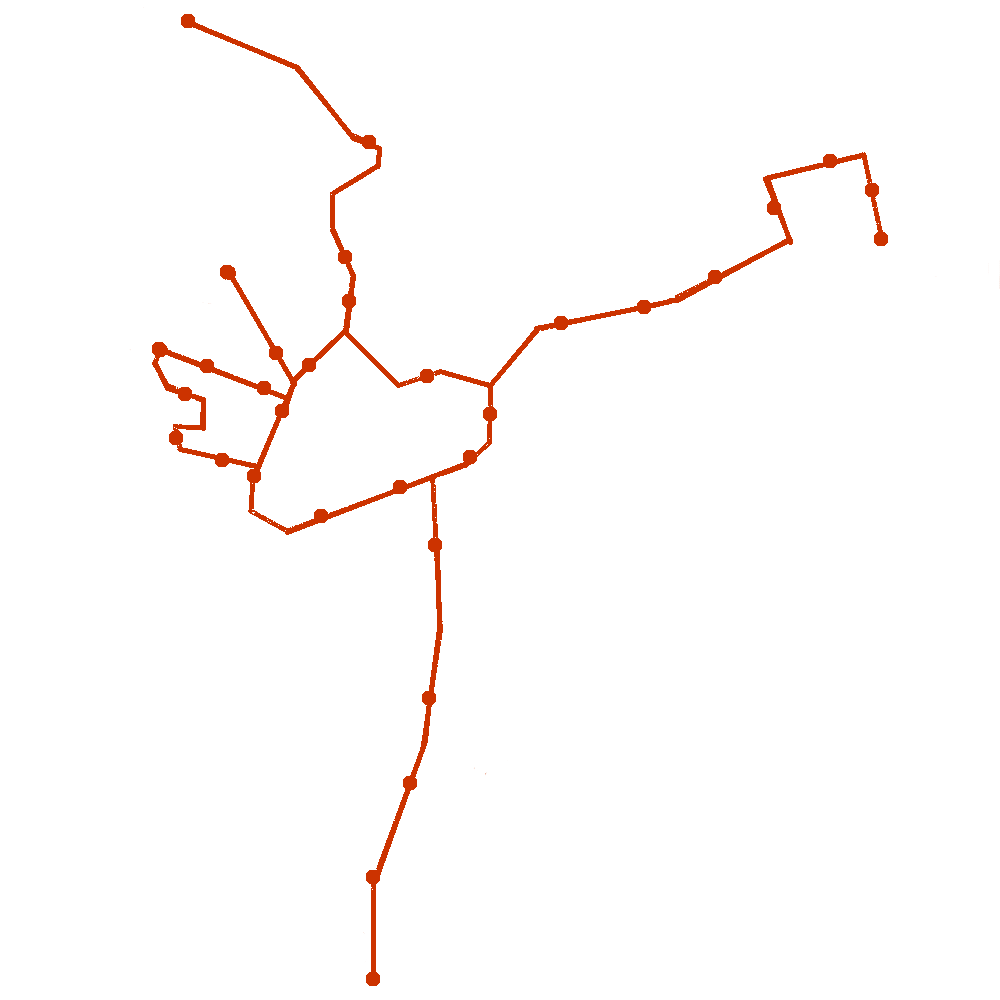 Banská Bystrica trolleybus network 2004